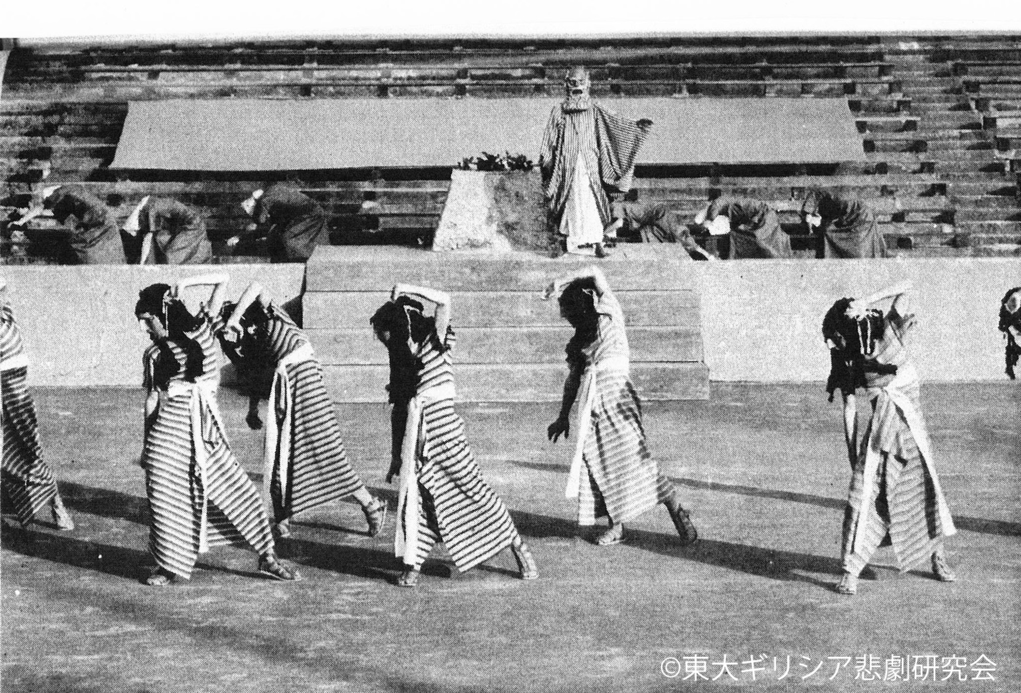 Greek Tragedy 1968 Tokyo University Greek Tragedy Institute-c